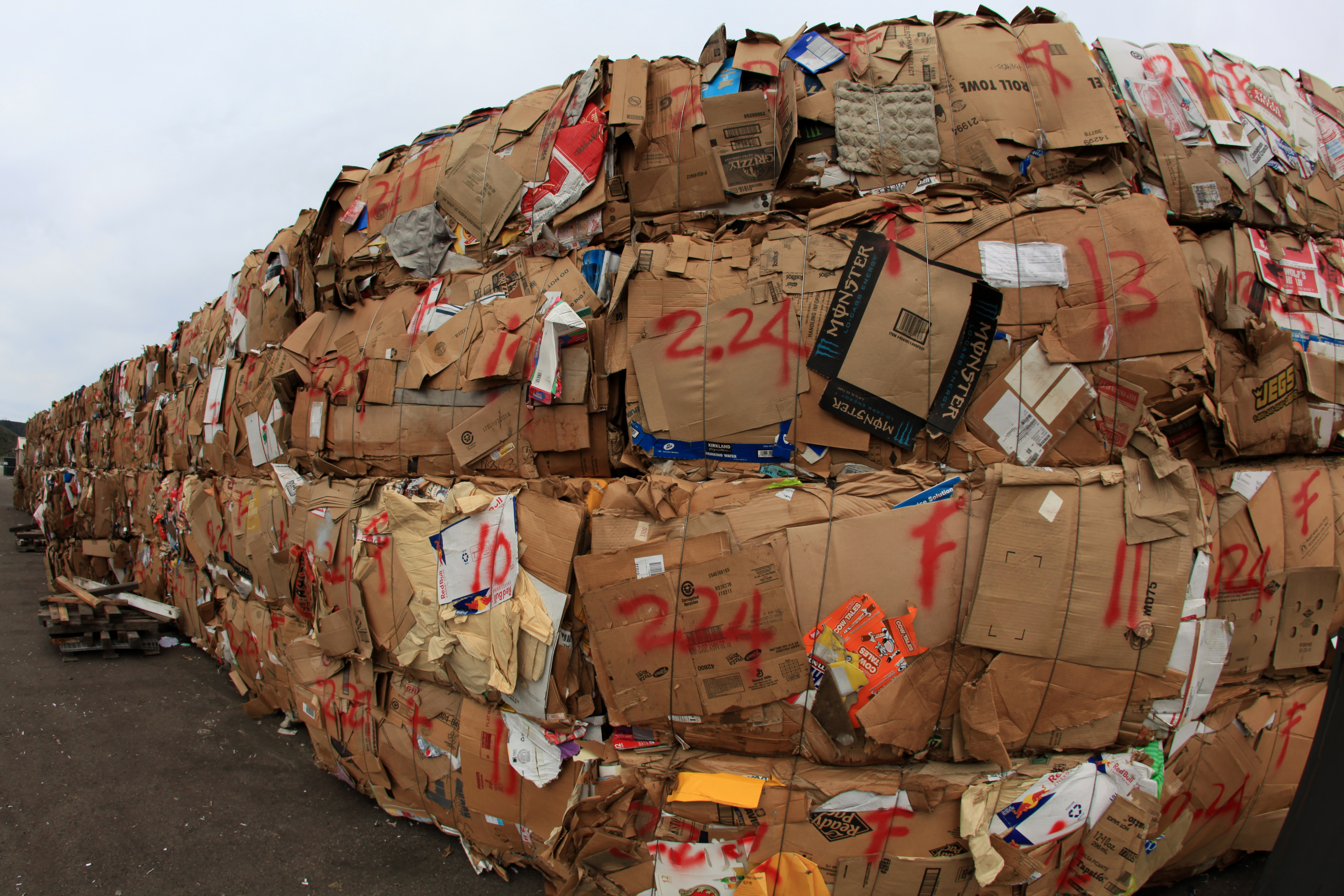 One bale of cardboard weighs approximately 1,600 pounds, which in turn, can be sold for about $170 each. Each year, Camp Pendleton recycles bales of cardboard. Although recycling participation is high on base, the man-hours that are used to extract trash from recycled products are excessive. Pendleton officials are asking base occupants to be aware of good recycling habits in order for its benefits to be truly effective. Unit: Marine Corps Base Camp Pendleton